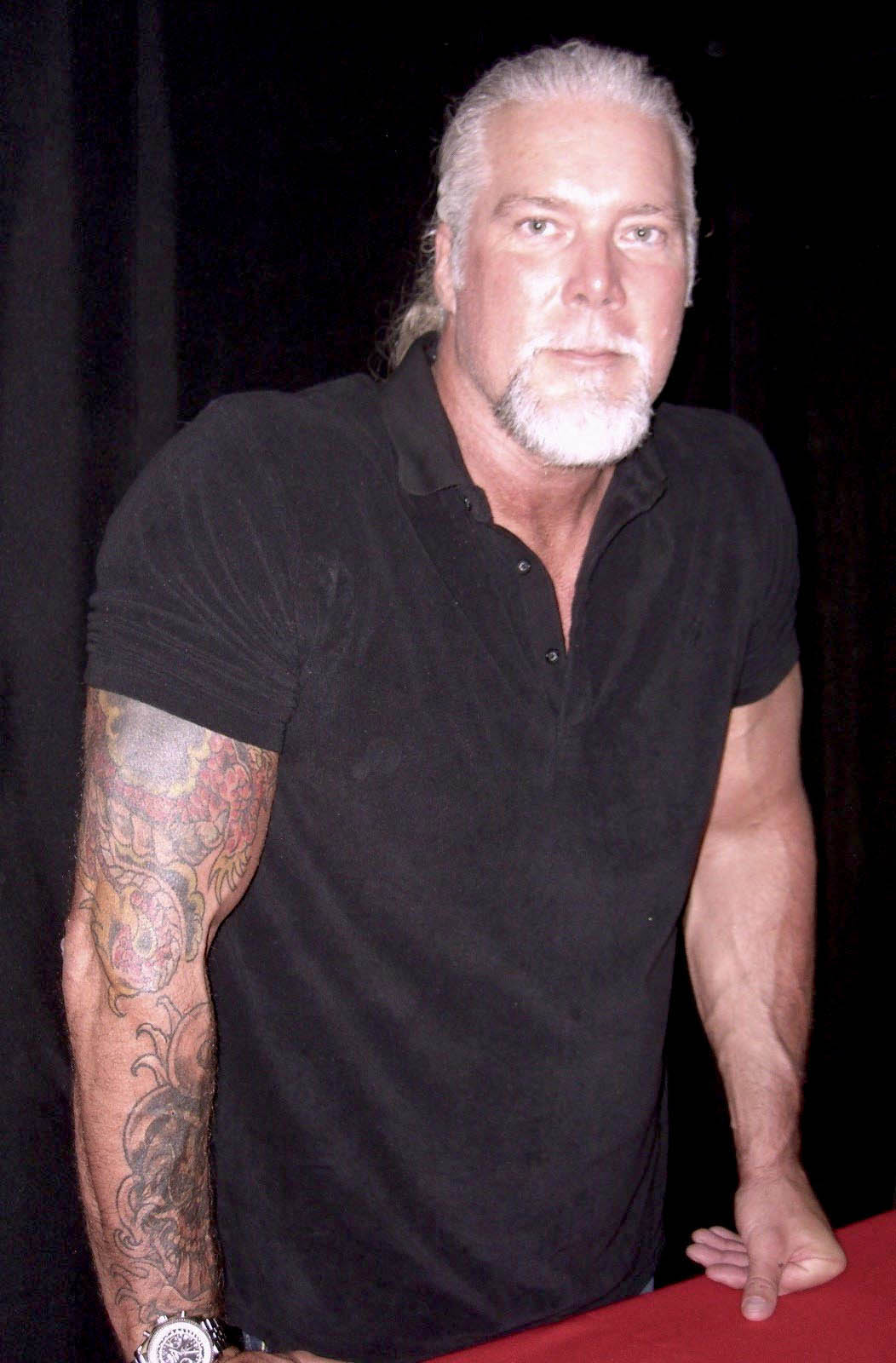 Professional wrestler Kevin Nash at the Big Apple Convention in Manhattan, October 2, 2010. Photo by Luigi Novi. This photo may be used, modified and published for any purpose, only if a easily visible credit to the photographer is placed near the photo in each instance in which it is used. (See licensing information below.) Publication of this photo without this proper attribution constitutes copyright infringement. For more information on my photos, you can contact me here.